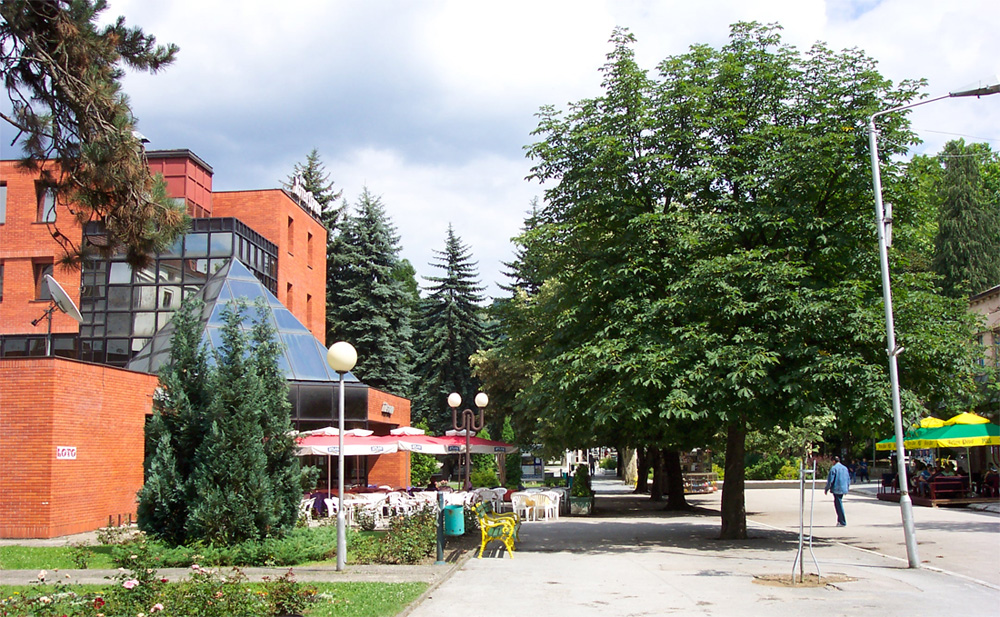 Main street in Bajina Bašta, left Hotel Drina